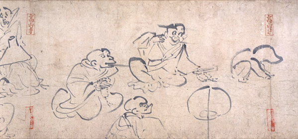 Panel from the fourth scroll of Chōjū-jinbutsu-giga, depicting monks sitting down and smoking their pipes.